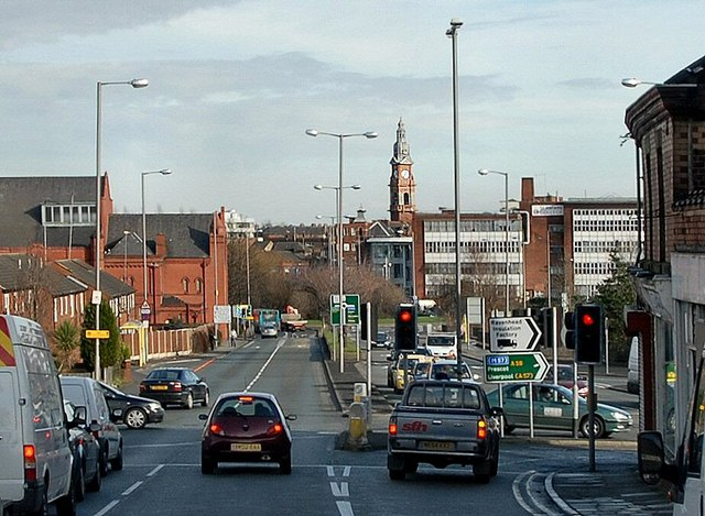 Approaching St. Helens, Westfield St